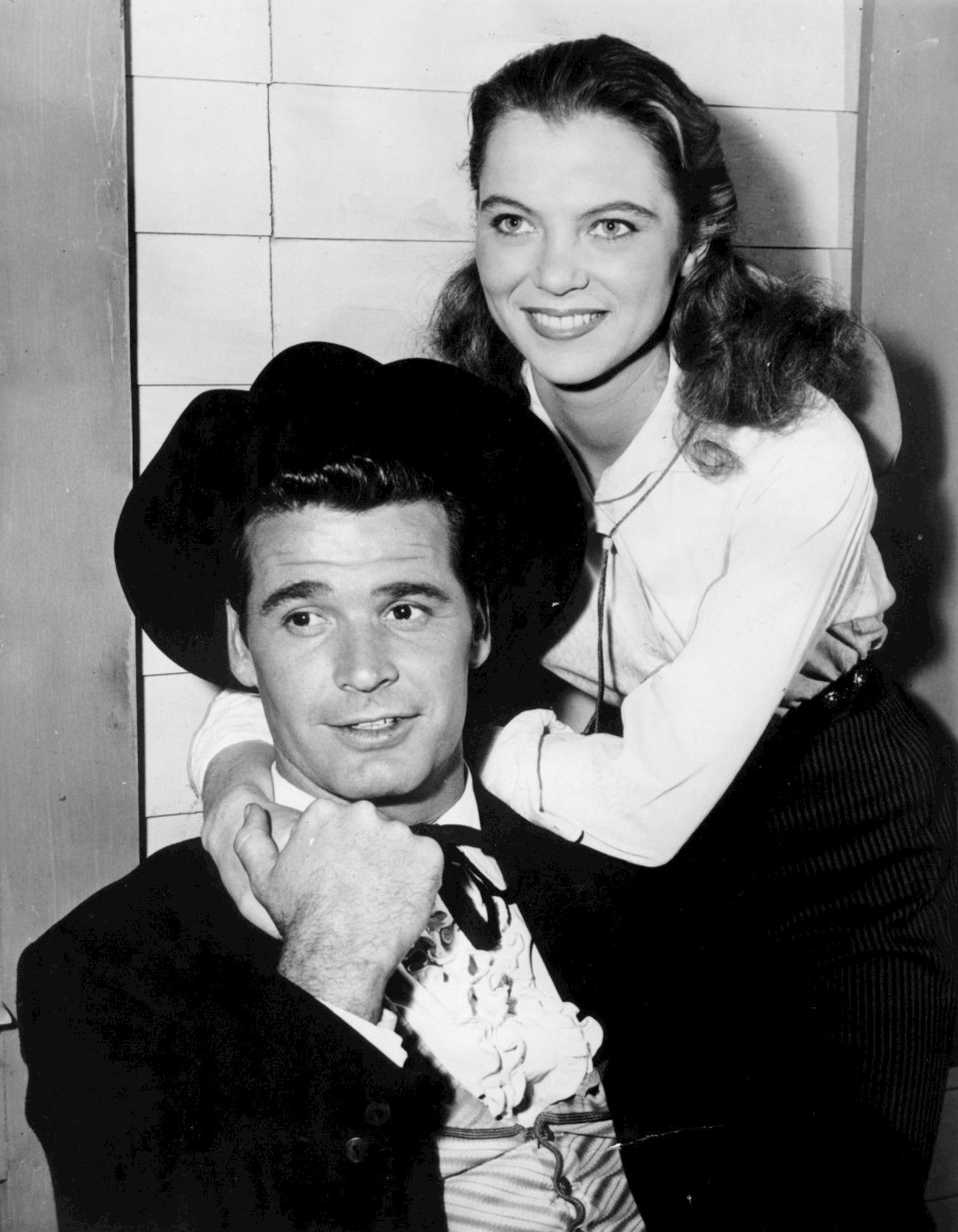 Photo of James Garner as Bret Maverick and guest star Louise Fletcher from the television program Maverick.